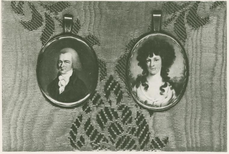 Cameos of Josiah Ogden Hoffman and his wife